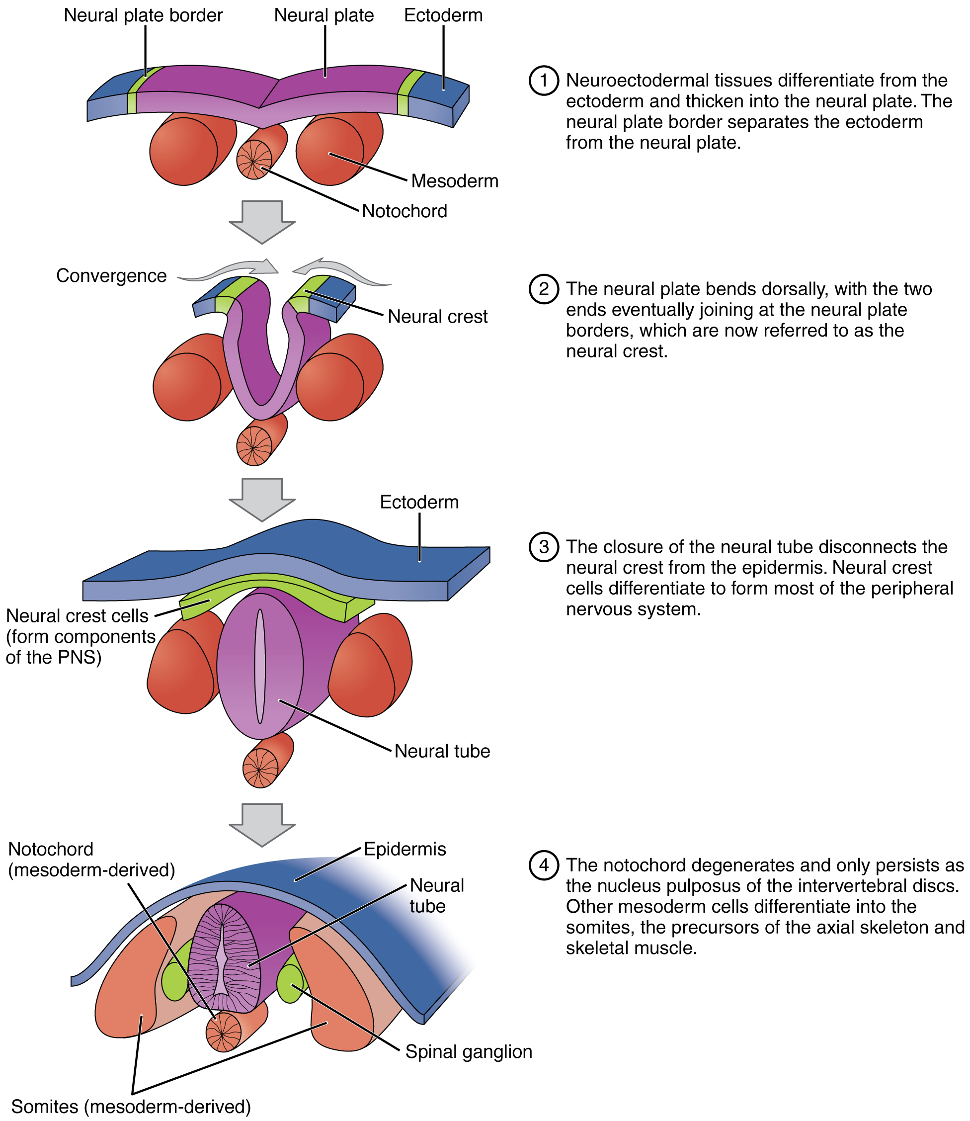 Illustration from Anatomy & Physiology, Connexions Web site. Jun 19, 2013.